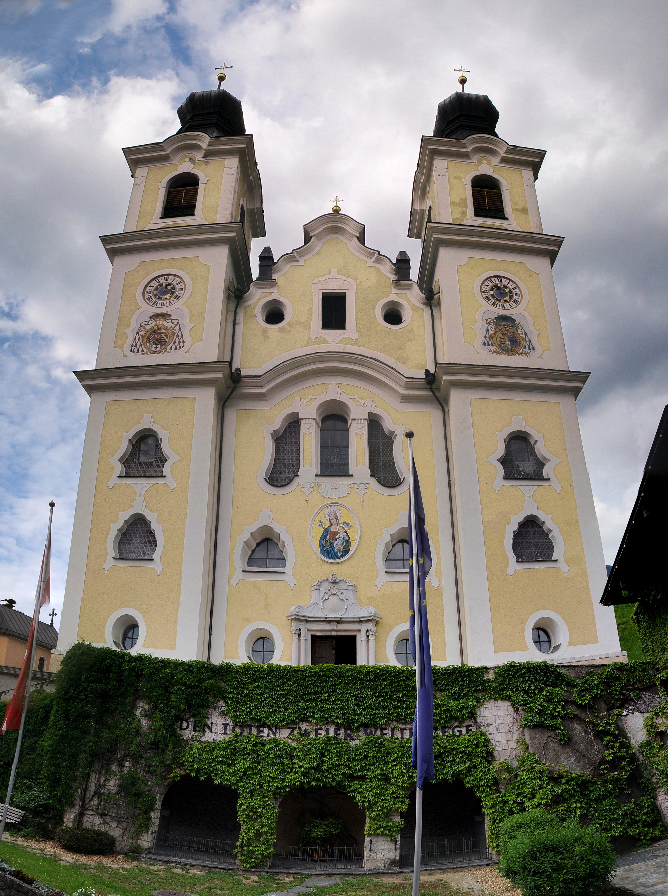 Roman-Catholic parish church St. James und St. Leonard of Hopfgarten im Brixental, Tyrol (Austria)